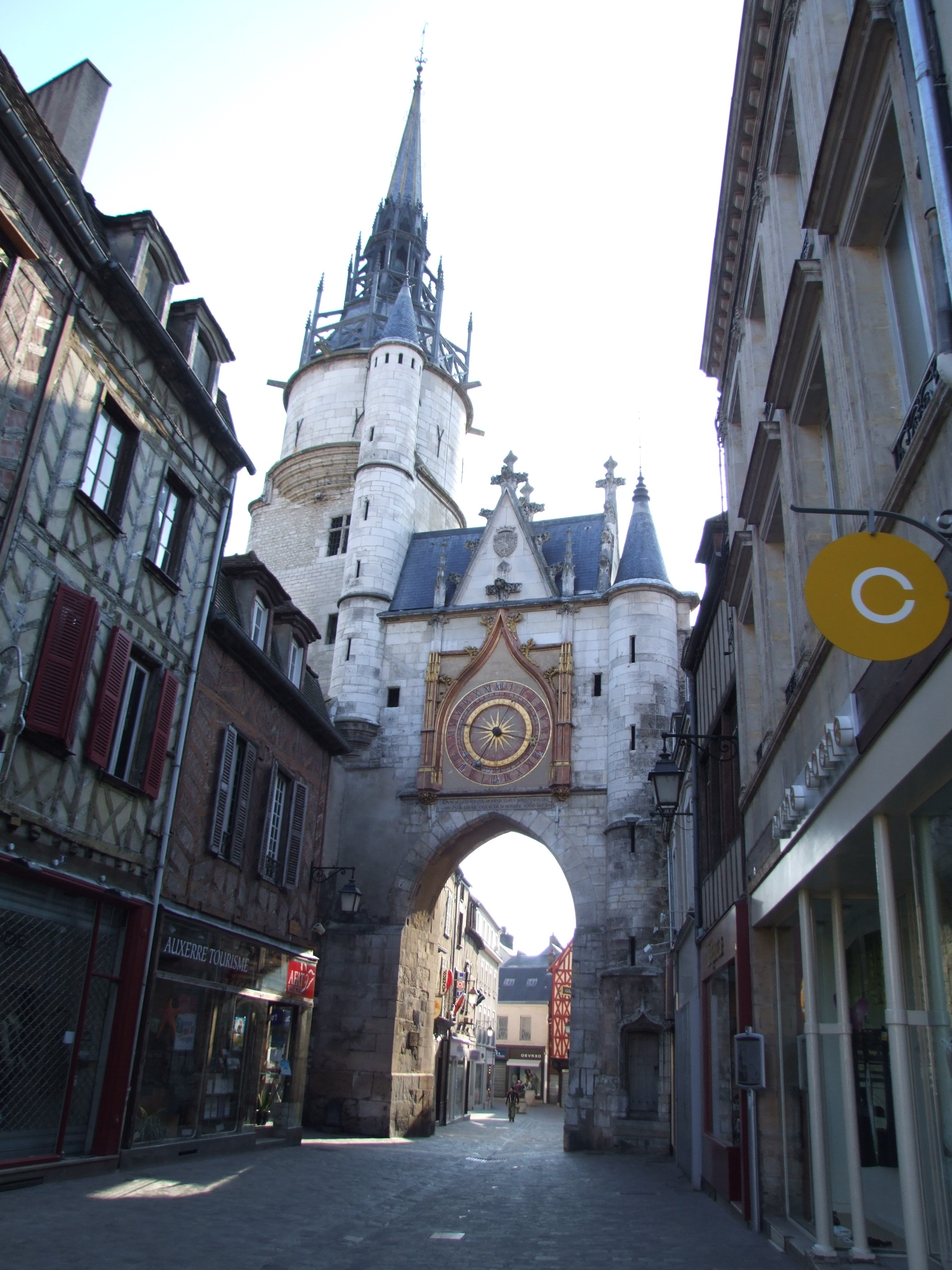 Clock tower, Auxerre, Bourgogne, France